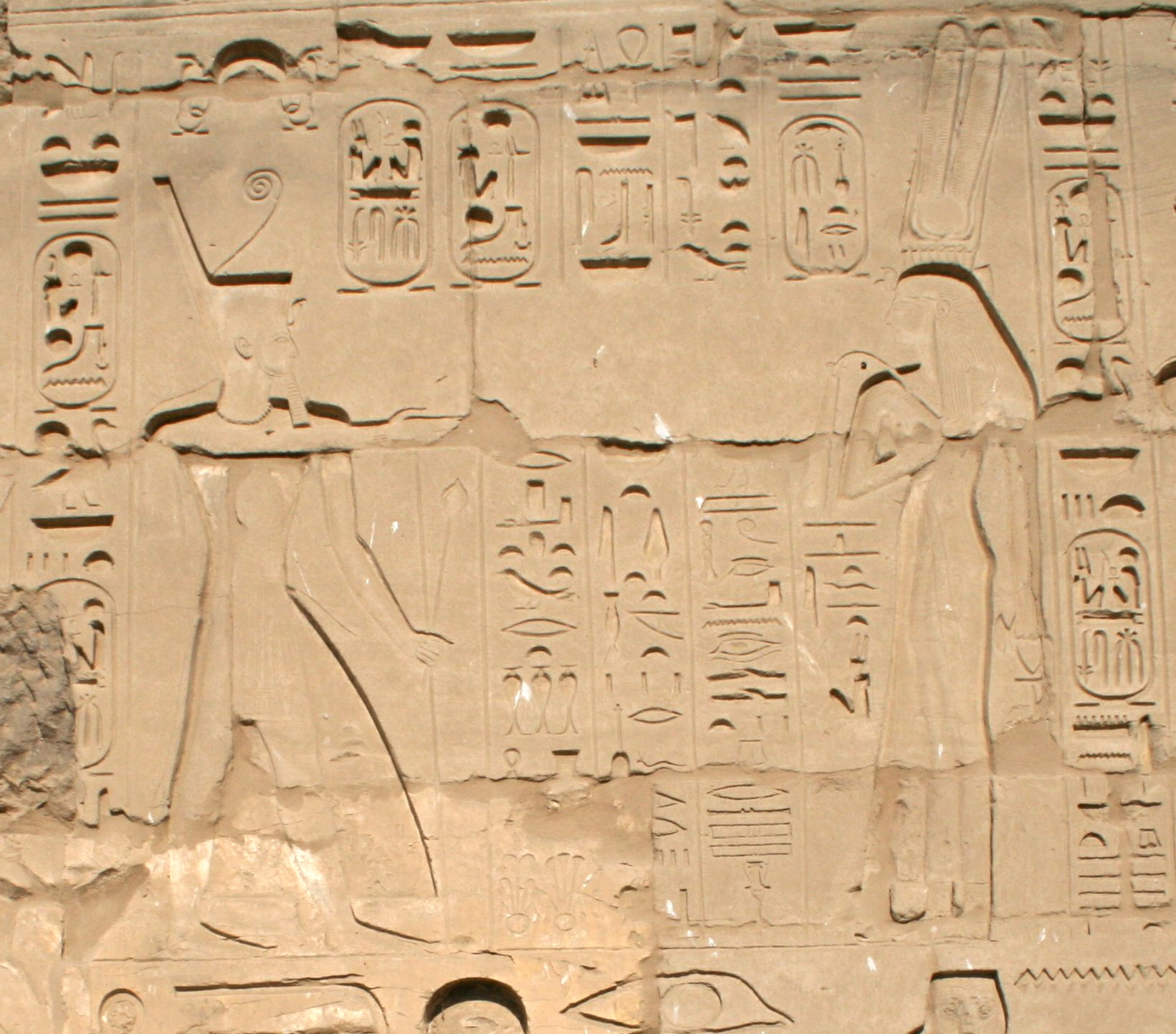 Ramses II and Ahmose-Nefertari. Karnak Temple.